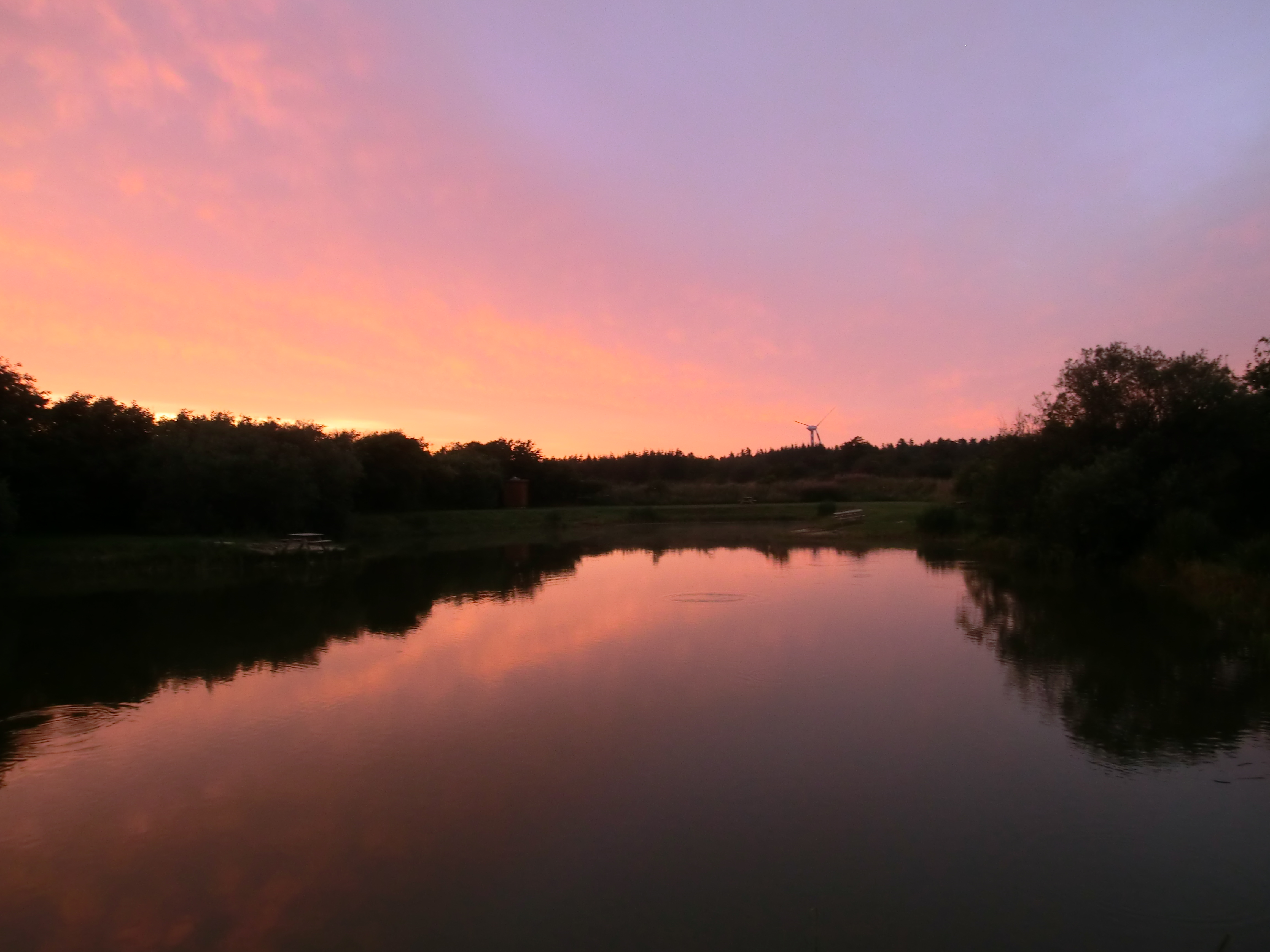 Put and take sundown